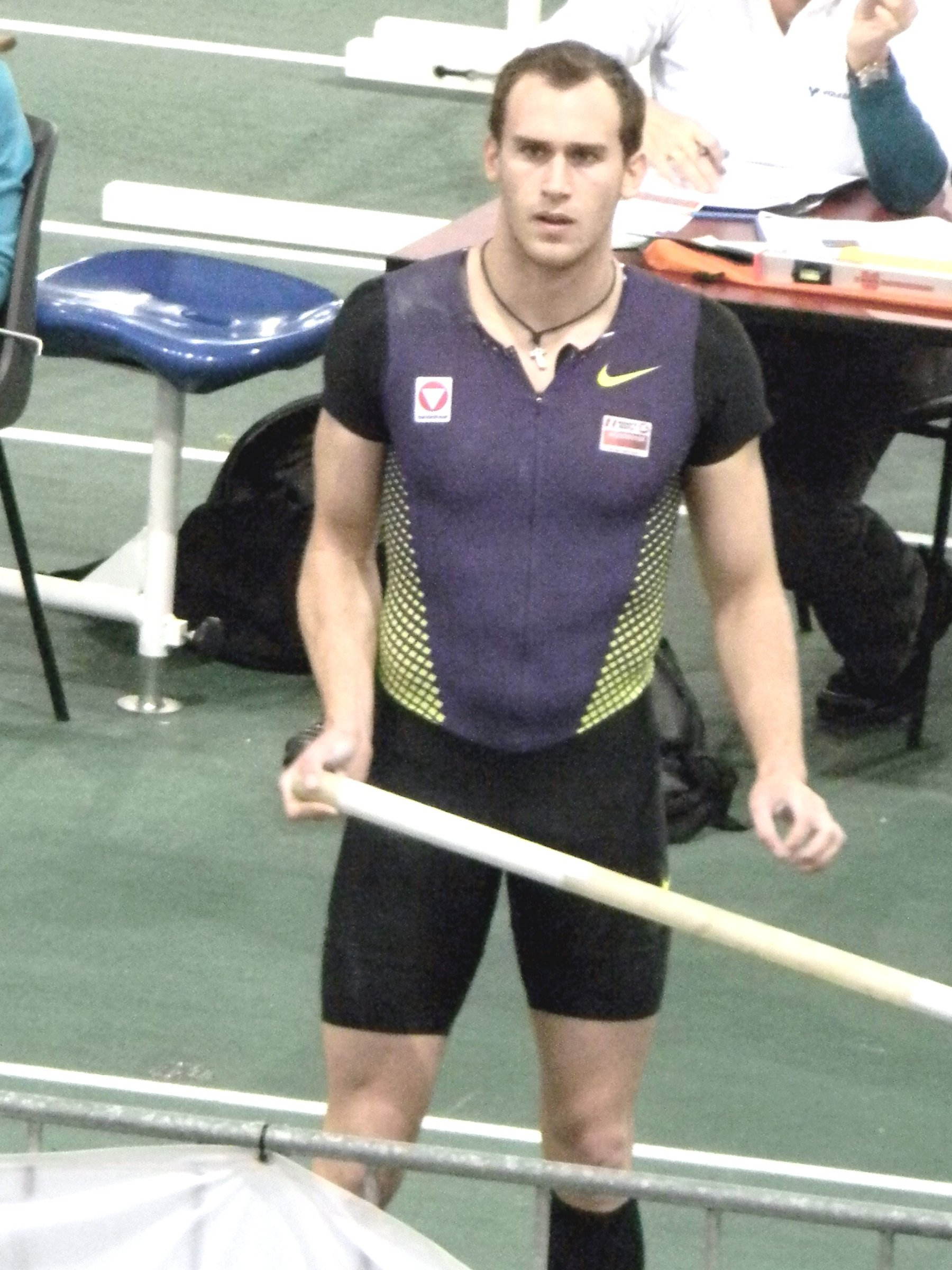 At the 2012 Austrian Championships in Vienna